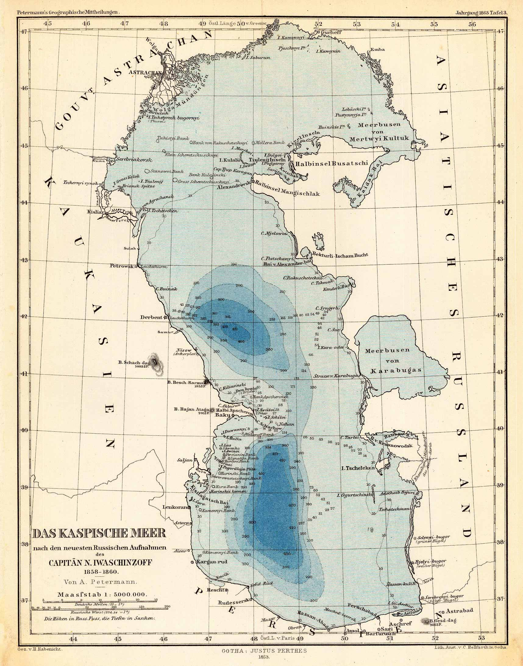 Das Kaspische Meer - nach den neuesten Rusischen Aufnahmen des Capitän N. Iwaschinzoff. 1858-1860. - Von A. Petermann. Gotha, Justus Perthes. 1863 [24,4 x 19,1 cm]